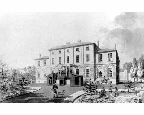 The Government House in Halifax, 1819, the new home for Nova Scotia's governor.